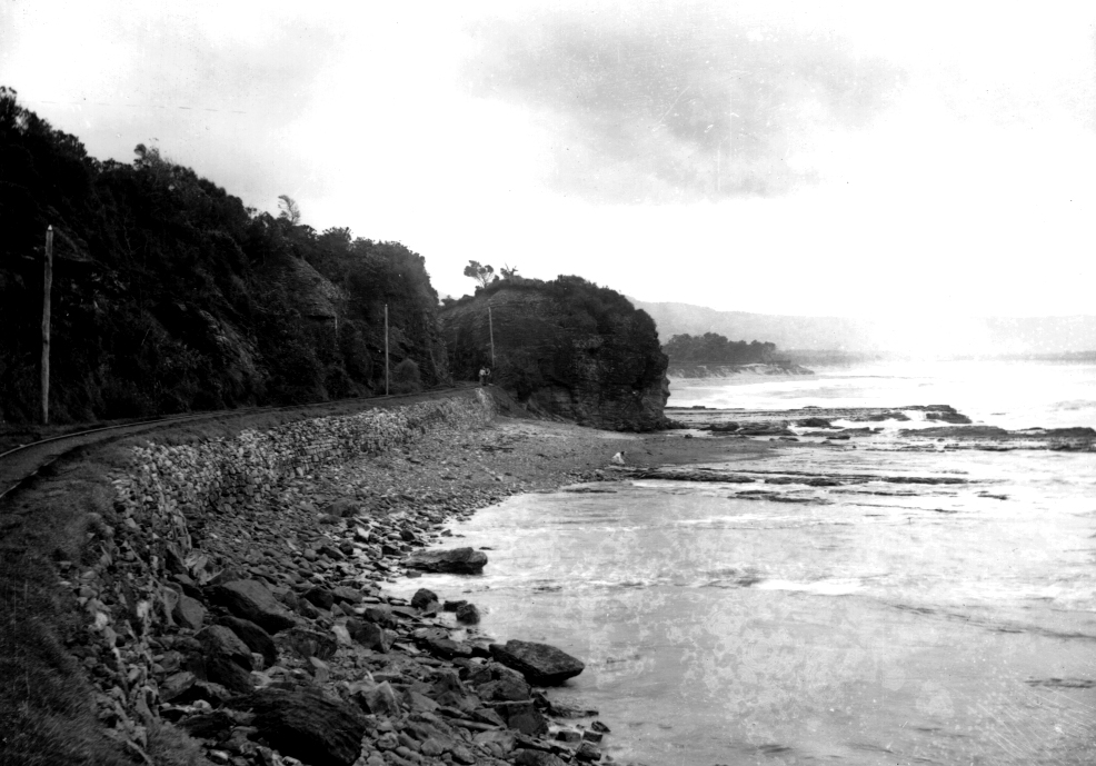 'Beaches' Pictures from The Powerhouse Museum This image is of Australian origin and is now in the public domain because its term of copyright has expired. According to the Australian Copyright Council (ACC), ACC Information Sheet G023v17 (Duration of copyright) (August 2014). Type of materialCopyright has expired if ... A Photographs or other works published anonymously, under a pseudonym or the creator is unknown:taken or published prior to 1 January 1955 B Photographs (except A):taken prior to 1 January 1955 C Artistic works (except A & B):the creator died before 1 January 1955 D Published editions1 (except A & B):first published more than 25 years ago E Commonwealth or State government owned2 photographs and engravings:taken or published more than 50 years ago and prior to 1 May 1969 1 means the typographical arrangement and layout of a published work. eg. newsprint. 2owned means where a government is the copyright owner as well as would have owned copyright but reached some other agreement with the creator. When using this template, please provide information of where the image was first published and who created it.